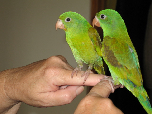 Orange-chinned Parakeet (Brotogeris jugularis). Two perching on fingers.